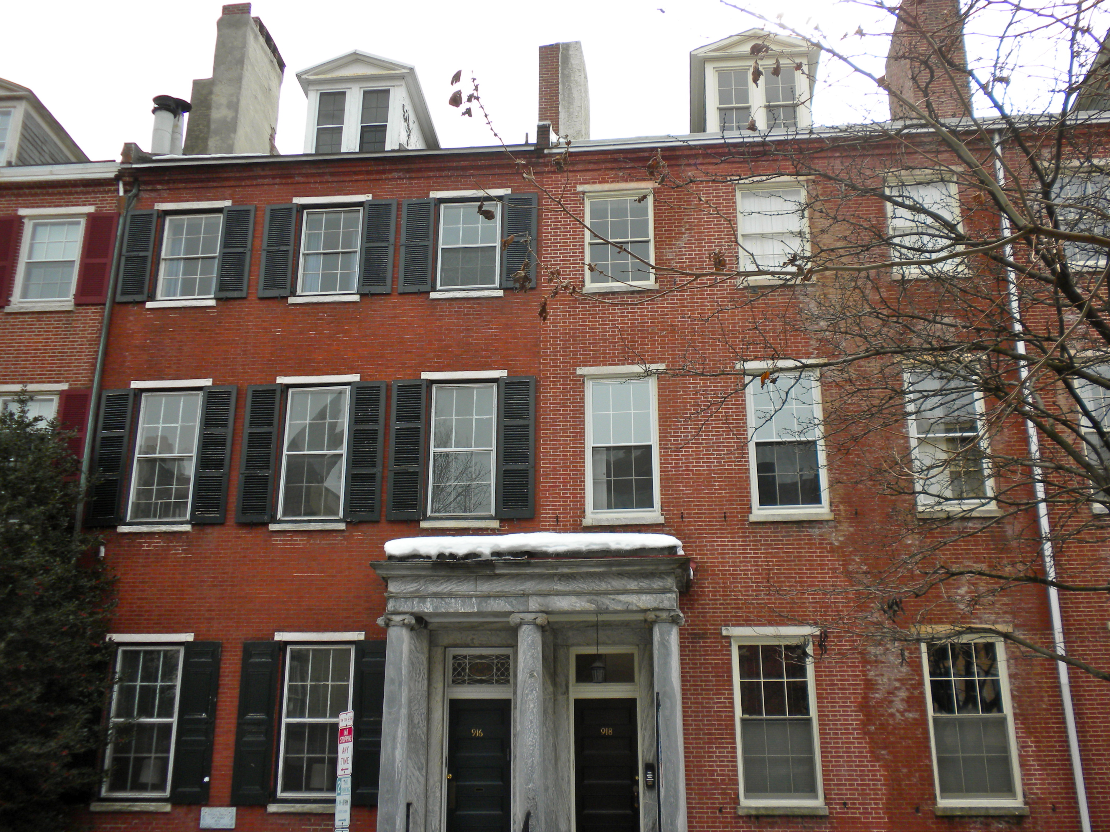 Rowhouses on Portico Row in Philadelphia. On NRHP since December 16, 1977. At 900–930 Spruce Street in the Washington Square West neighborhood in Center City